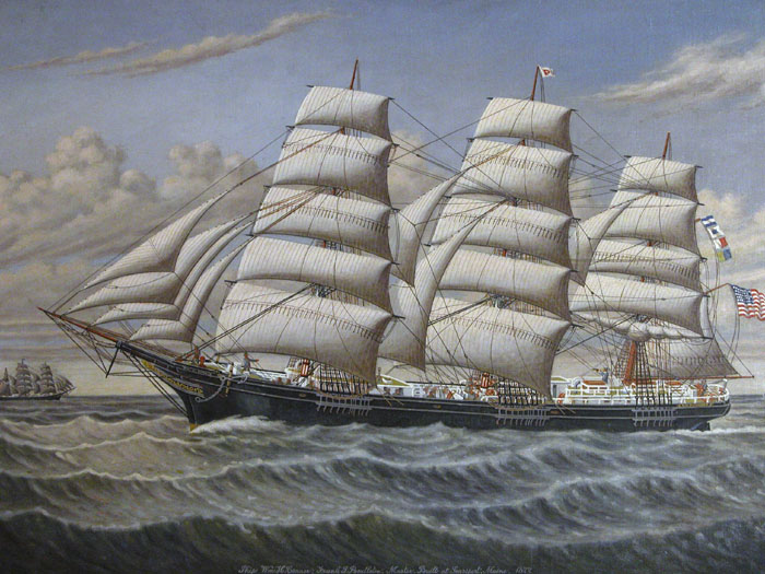 Ship built by Marlboro Packard 1877 in Searsport, Maine. The William H. Conner was the last and largest full-rigged ship built in Searsport (1877), costing over $100,000. Apparently in three voyages she earned her construction costs, but that was the exception; 15% was closer to the rule. Marlboro Packard was her master builder, working at the Carver yard. The Museum has his half model of the vessel. Such a vessel would have attracted much attention including that of artist Percy Sanborn from neighboring Belfast. He may have painted her shortly after she was launched or received a commission later on in his career. Listed in the Register until 1898, finally turned into a barge and sunk off Sandy Hook.